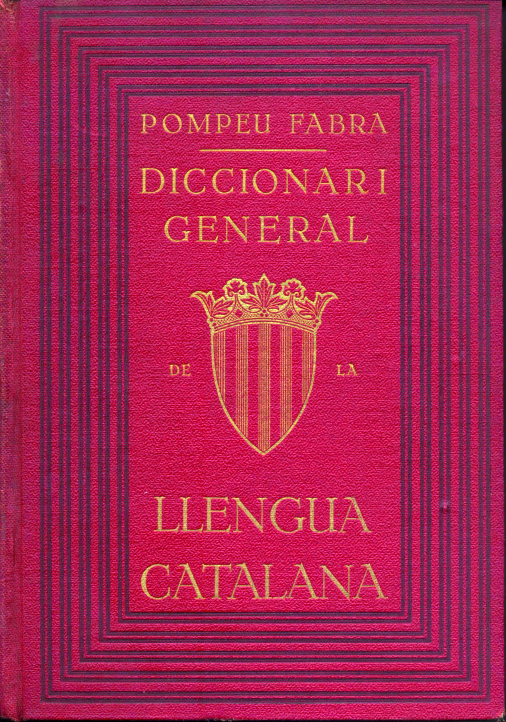 Cover of the 1932 edition of the general dictionary of Catalan.